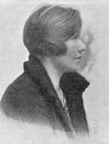 Marie Fantová (1893-1963), Czech journalist and translator